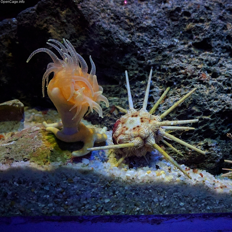 Stylocidaris reini (Döderlein, 1887), at Suma Aqualife Park, Japan